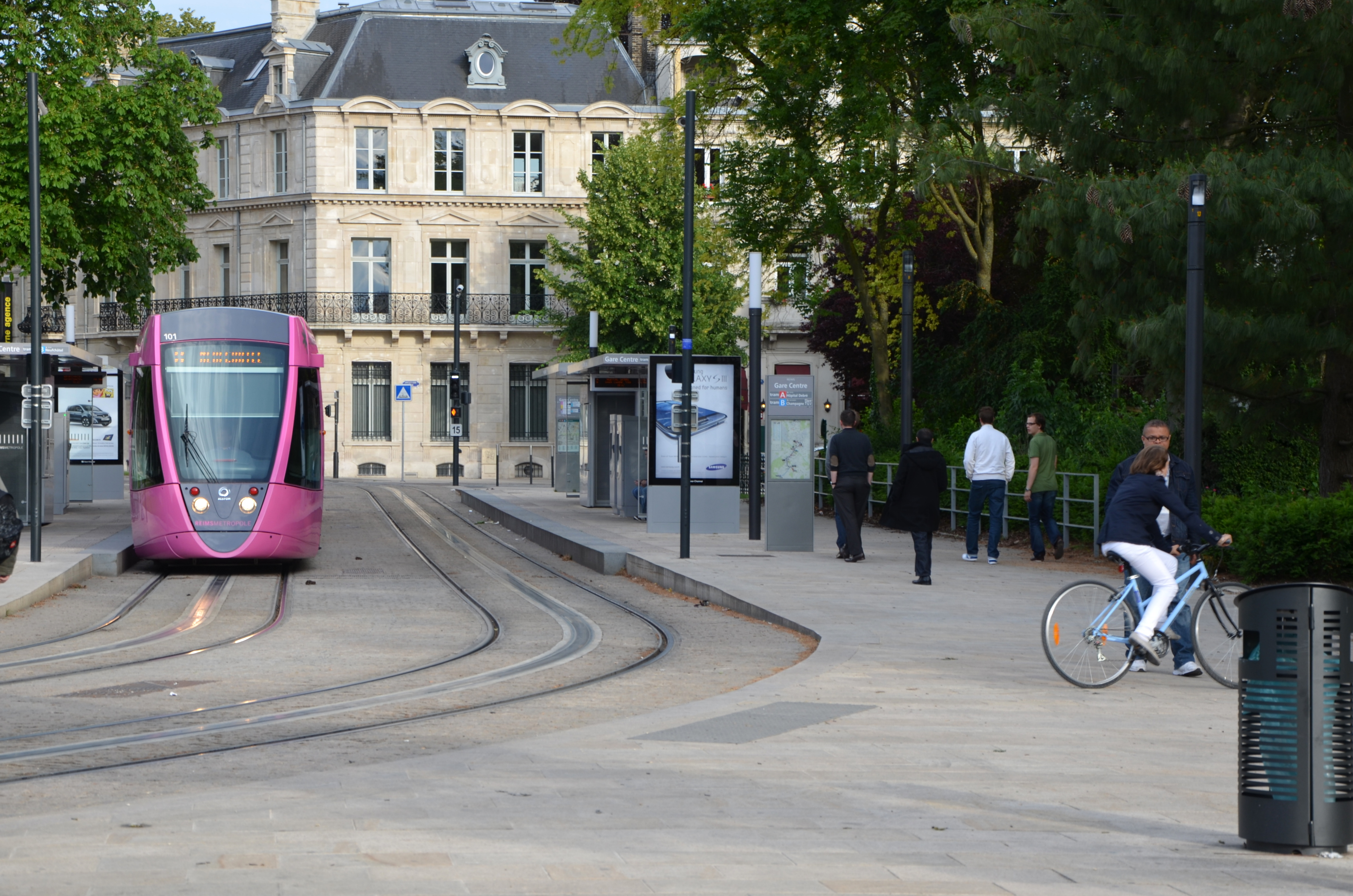 tramway in Reims near the railways station, Marne, France. The tram is using for aesthetic reasons a ground-level power supply